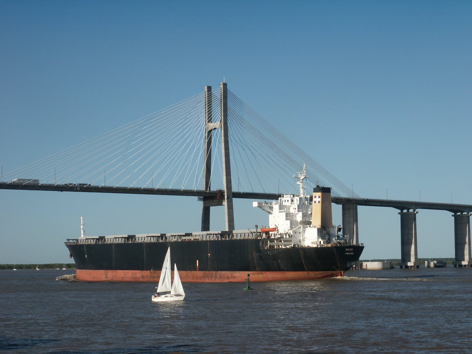 Wood chips carrier Racer on the Paraná River, Argentina, just coming under the Rosario-Victoria Bridge that crosses the river from Rosario, province of Santa Fe, to Victoria, Entre Ríos. IMO Number: 8507779 MMSI Number: 212847000 Callsign: P3LR8 Length: 196 m Beam: 32 m Puente y Luna